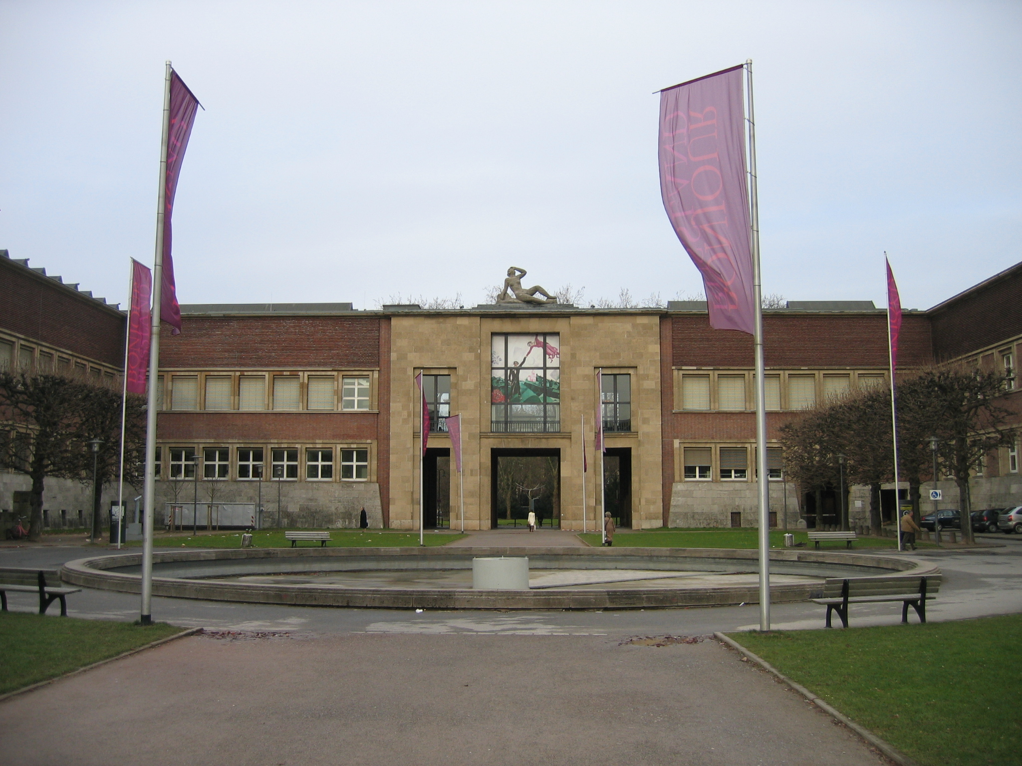 The building of the museum kunst palast in Düsseldorf, Germany